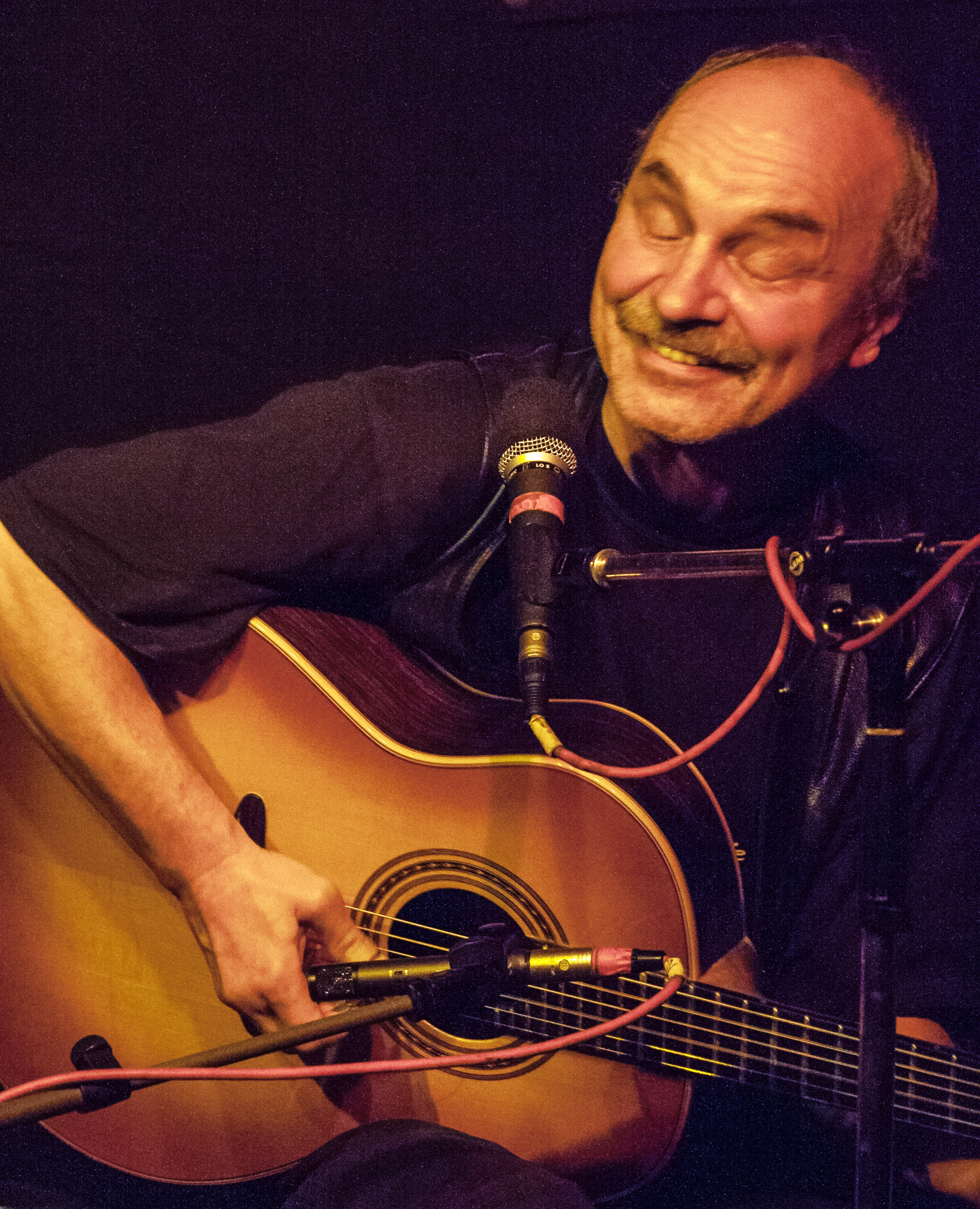 The Singer-songwriter Werner Lämmerhirt at a concert at Wirtshaus Konfetti of the cultural association Wespennest.